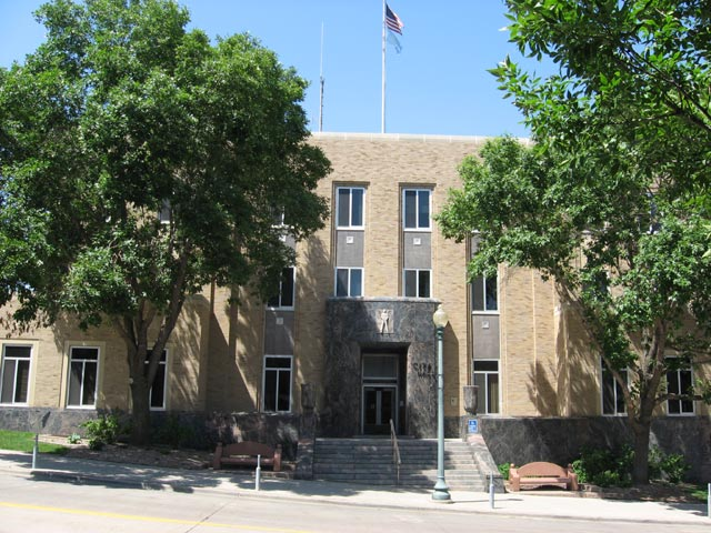 City Hall, Sioux Falls, South Dakota. Taken 9 June 2007 by Jon Platek.